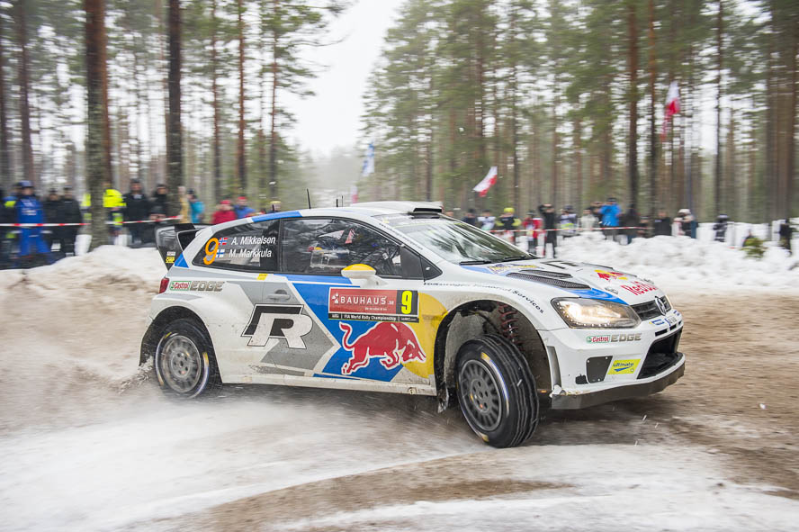 Rally Sweden 2014 Andreas Mikkelsen,Fredriksberg 1,Mikko Markkula,Motorsport,Rally,Rally Sweden,Rallye,Rallye Schweden,SS9,VW Polo R WRC,Volkswagen Motorsport II,Volkswagen Polo R WRC,WP9